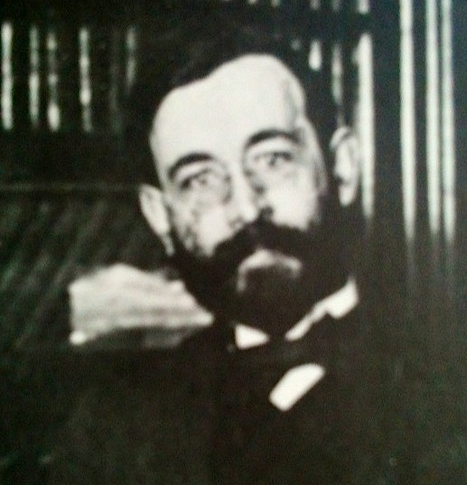 Photographic portrait of Adolphe van Bever (1871-1927).